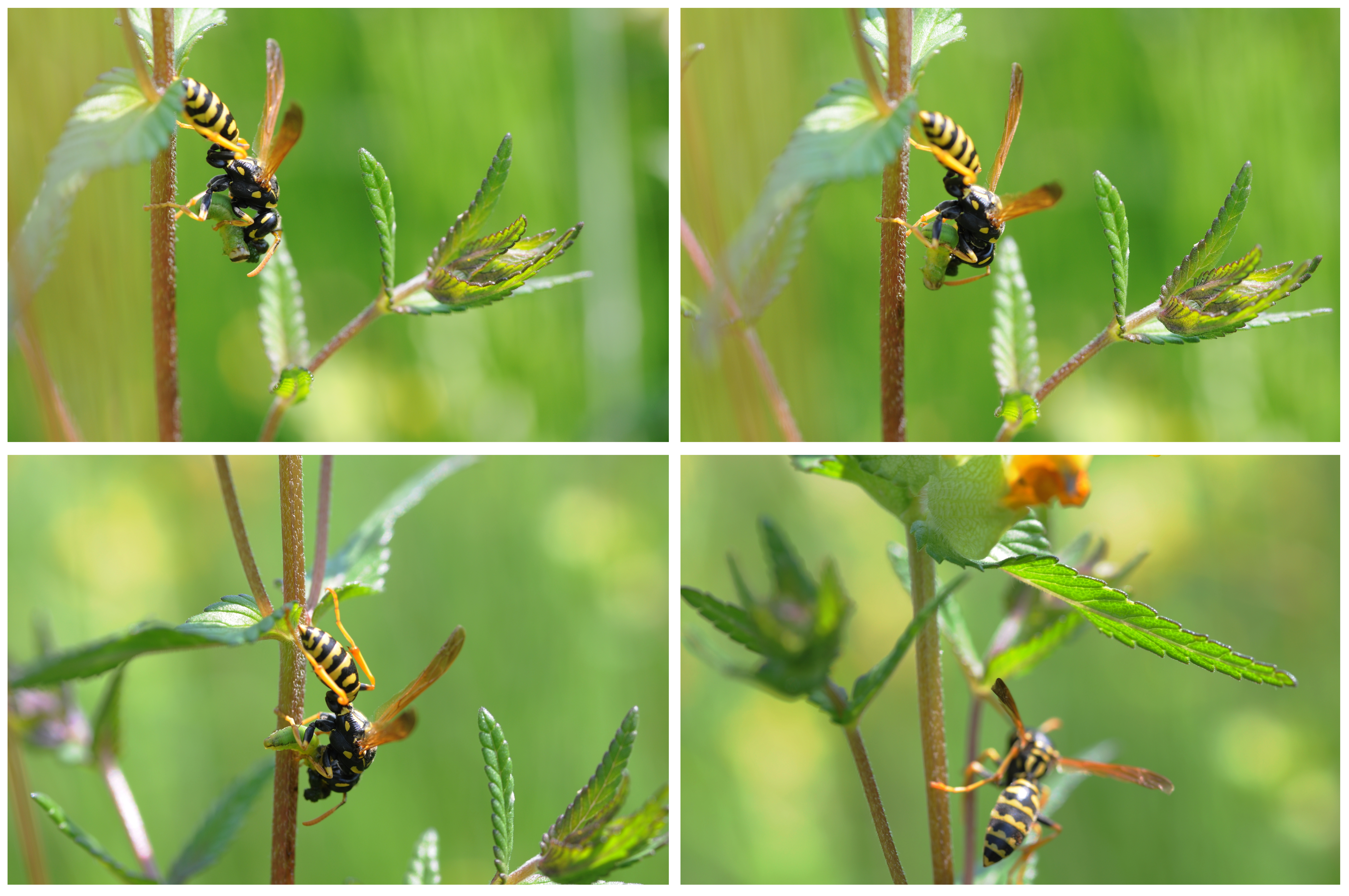 Polistes dominula with a caterpillar. After biting off its head, the wasp flies away with the caterpillar.